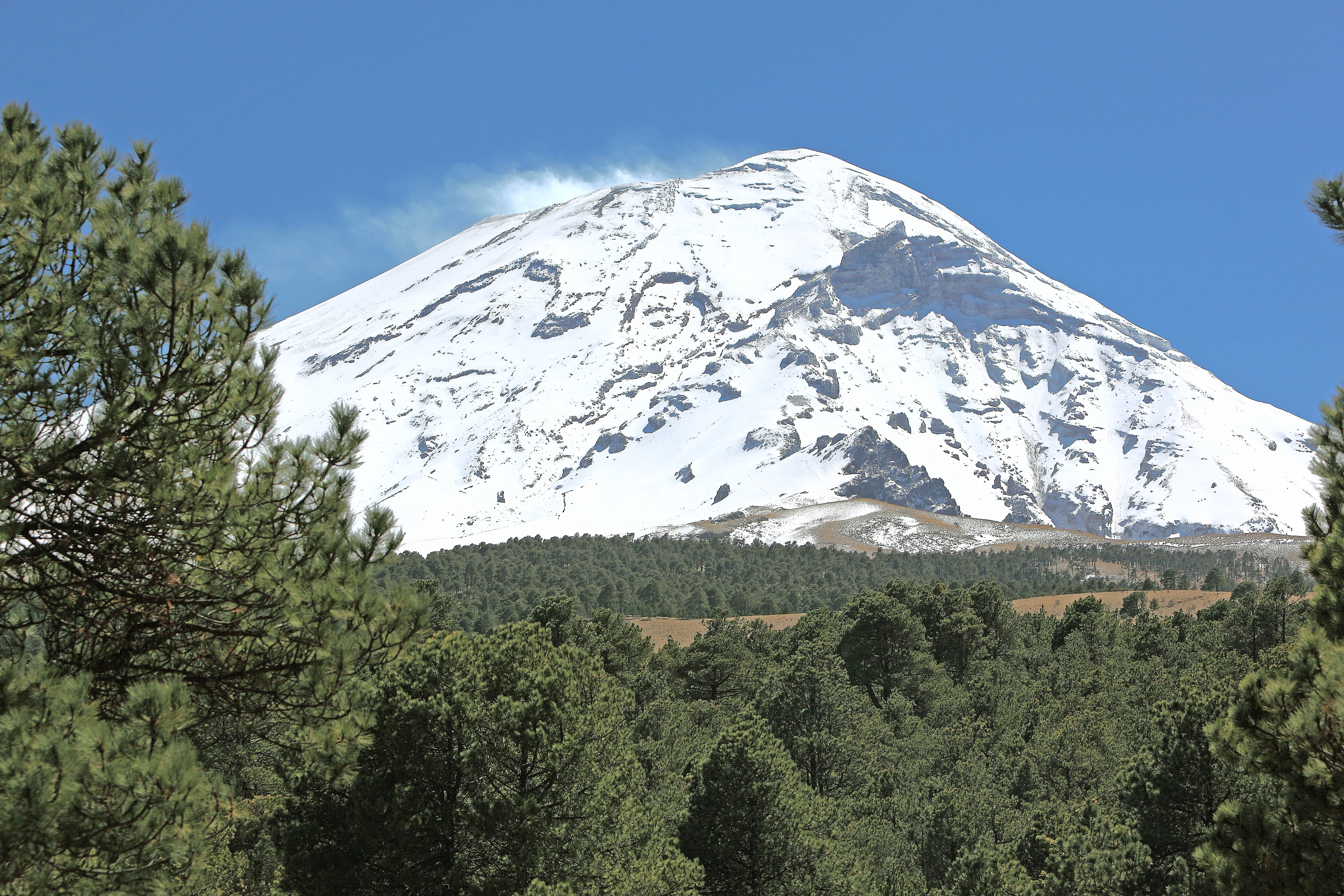 Volcán Popocatépetl en Febrero de 2010, with Pinus hartwegii forest in foreground